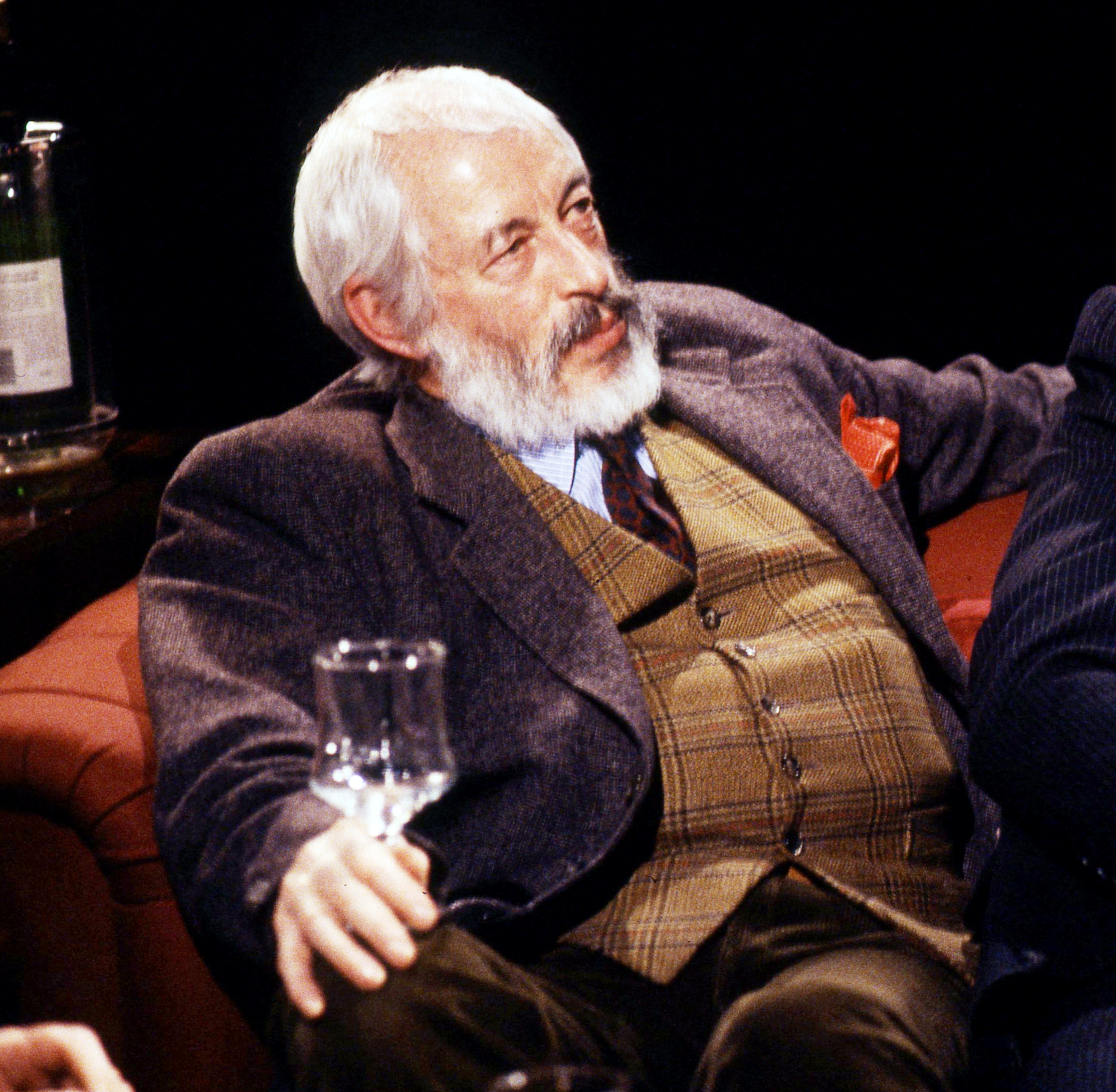 J. P. Donleavy appearing on After Dark on 16 March 1991. Other guests included Patrick Cosgrave, David Norris, Emily O'Reilly, Paul Hill and Francis Stuart.